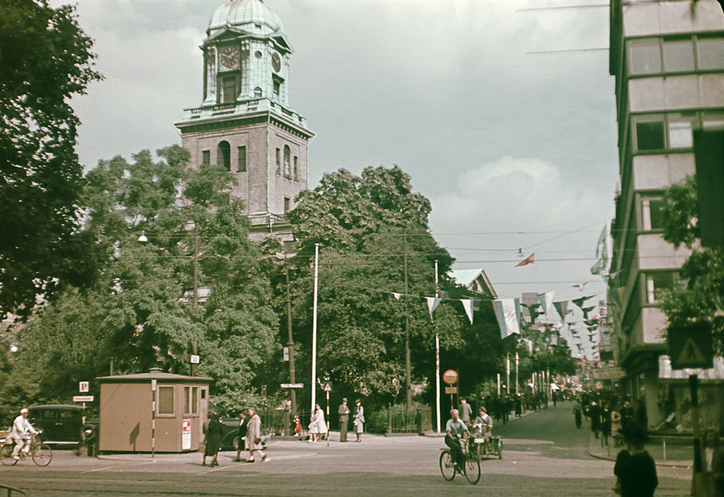 Kungsgatan (King Street) in Gothenburg, at the junction with Västra Hamngatan street. Gothenburg Cathedral (Gustavi Cathedral) to the left. Kungsgatan i Göteborg, vid korsningen till Västra Hamngatan. Göteborgs domkyrka (Gustavi domkyrka) till vänster. Parish (socken): Göteborg Province (landskap): Västergötland Municipality (kommun): Göteborg County (län): Västra Götaland Photograph by: Fredrik Bruno Date: 1944 Format: Colour slide See a recent photo of the same view: Persistent URL: Read more about the photo database (in english)